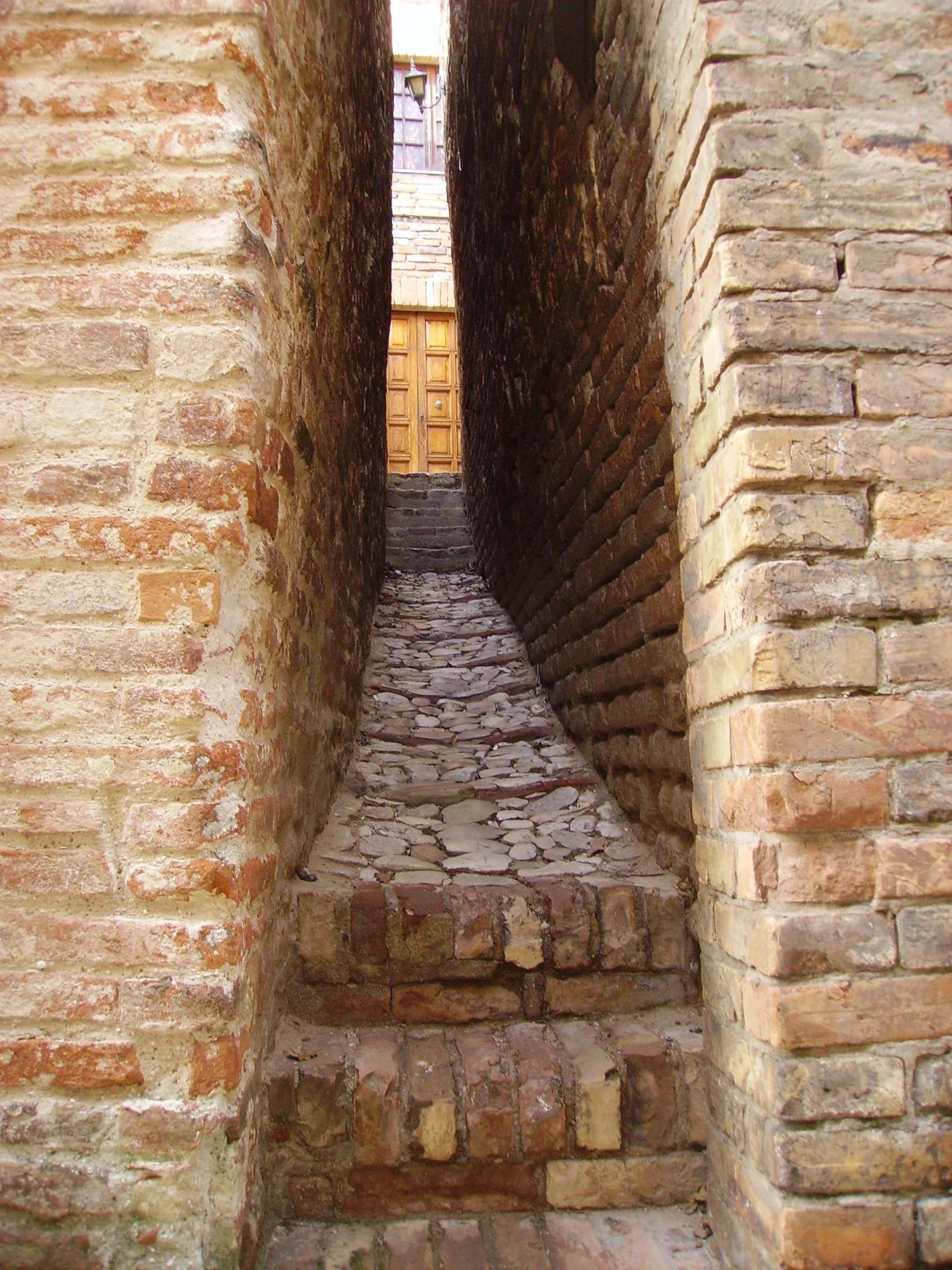 The narrowest alley in Italy, Ripatransone (AP) People-free version